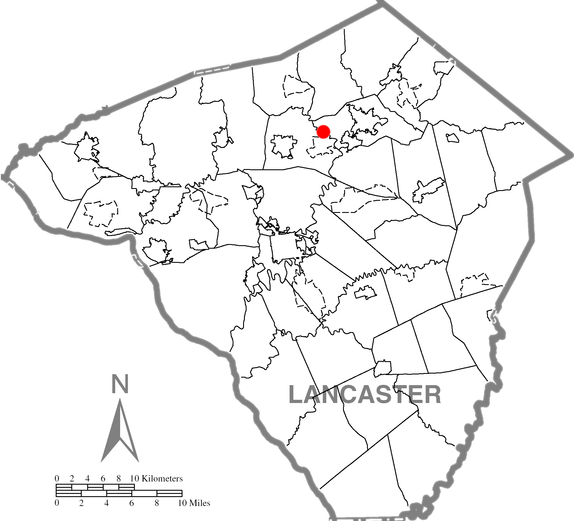 Lancaster County dot map of the Zook's Mill Covered Bridge.